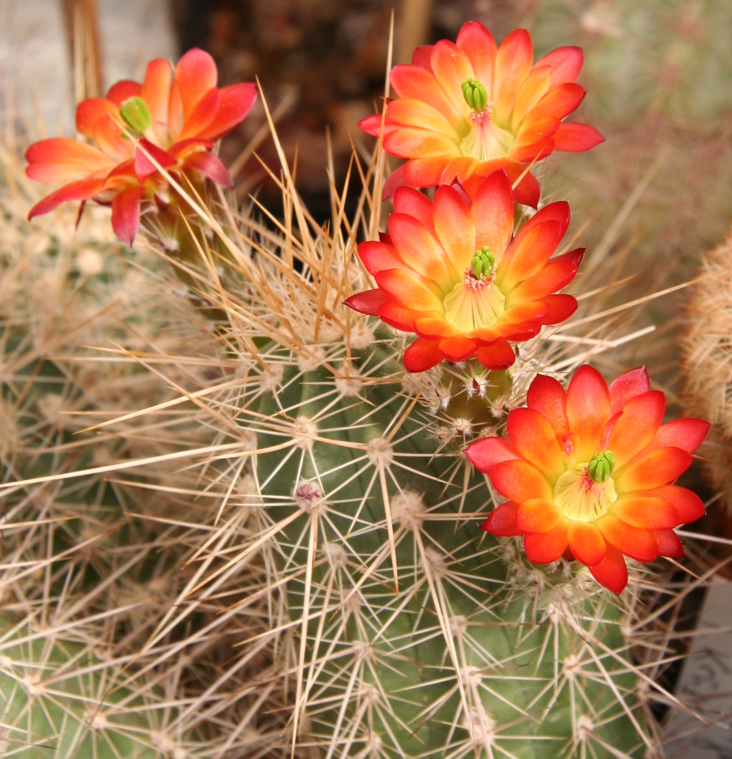 Echinocereus polyacanthus subsp. pacificus (Syn. Echinocereus mombergerianus)